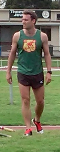 Hamish Nelson 1